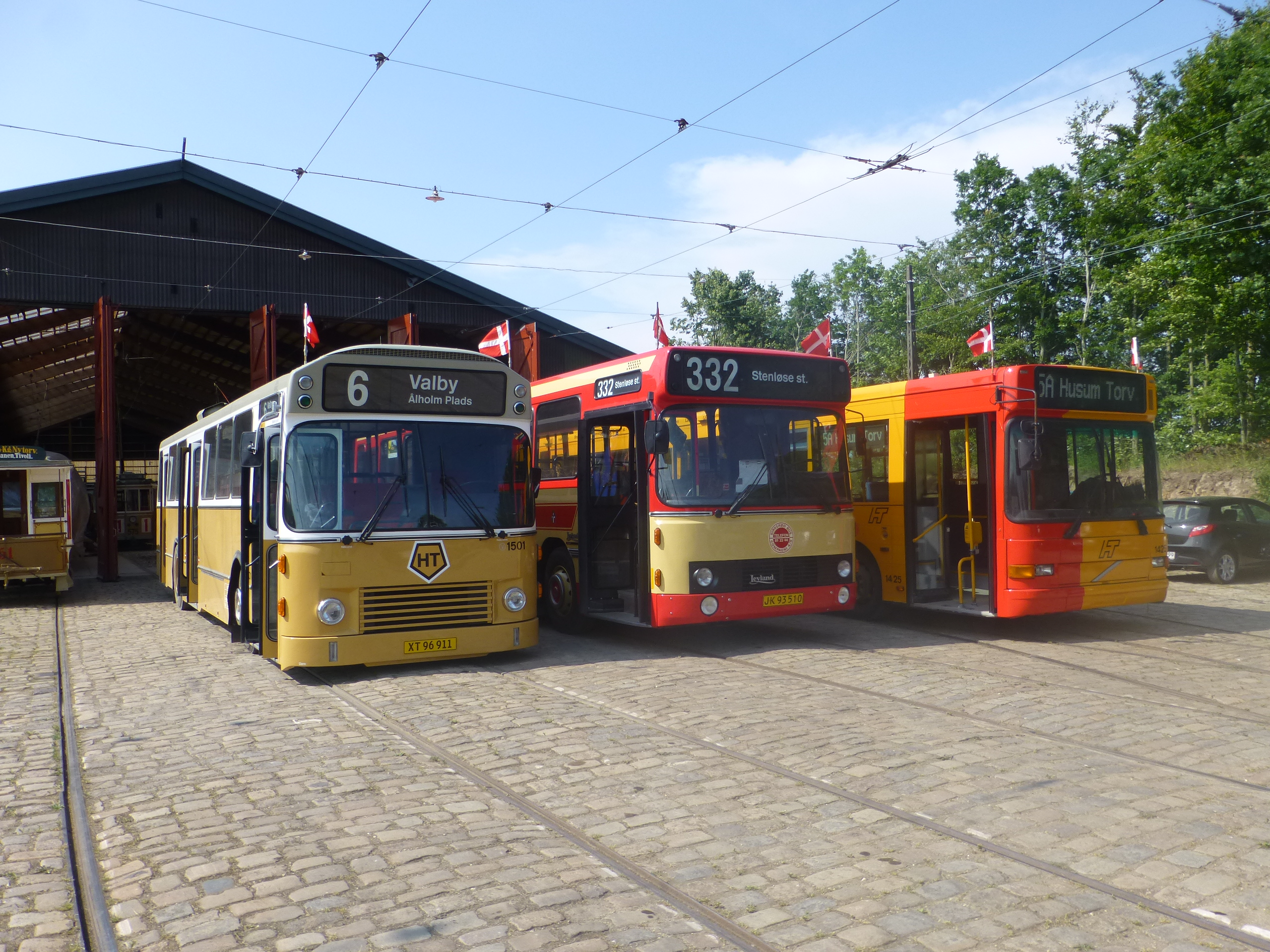 Old buses from Copenhagen HT 1501, BBC 43 and Arriva 1425 on Sporvejsmuseet Skjoldenæsholm in Denmark.